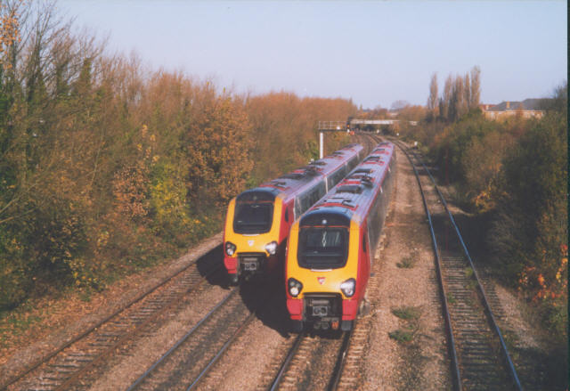 Passing Voyagers. Two Virgin Voyagers pass on the main line just north of Walton Well Road.